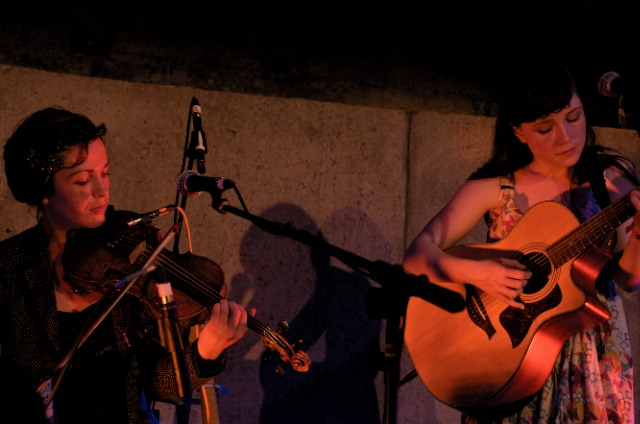 Blue Roses performing at The Great Escape Festival 2009